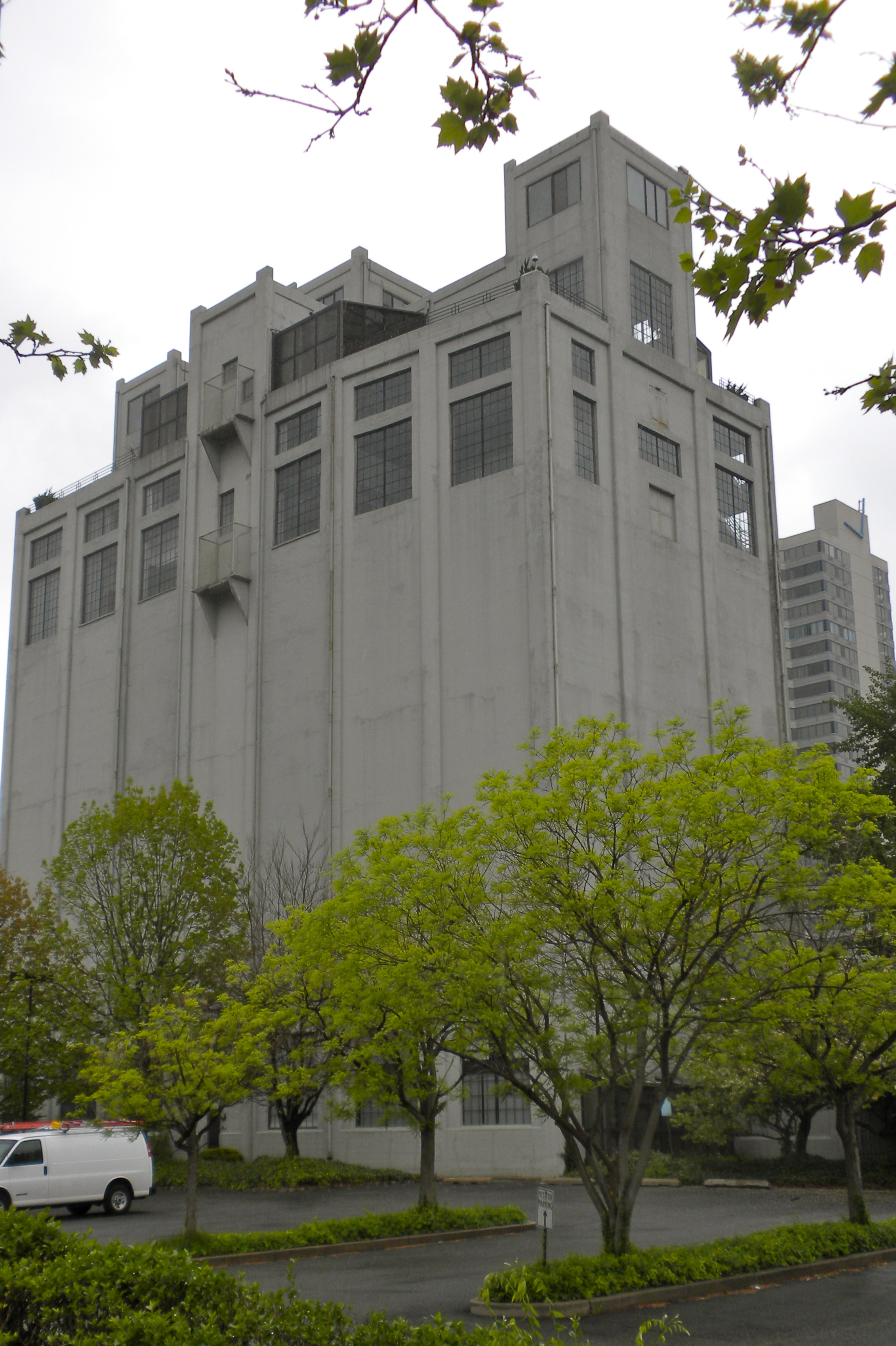 The Reading Company Grain Elevator on NRHP since March 10, 1982. At 411 North 20th Street in Philadelphia a bit north of the Ben Franklin Parkway, in Franklintown. Used as a grain elevator from the 1920s through about 1950, then refitted as an office with penthouse.